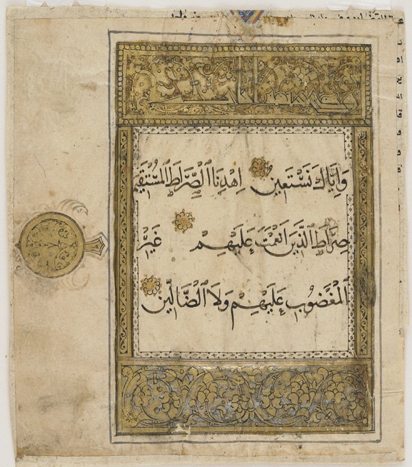 Folio from a Koran, Sura 1:5-7; Sura 2:1-4 Ink, color, and gold on paper H: 17.4 W: 15.4 cm Iran or Iraq